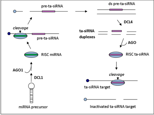 Model for ta-siRNA Biogenesis in Arabidopsis